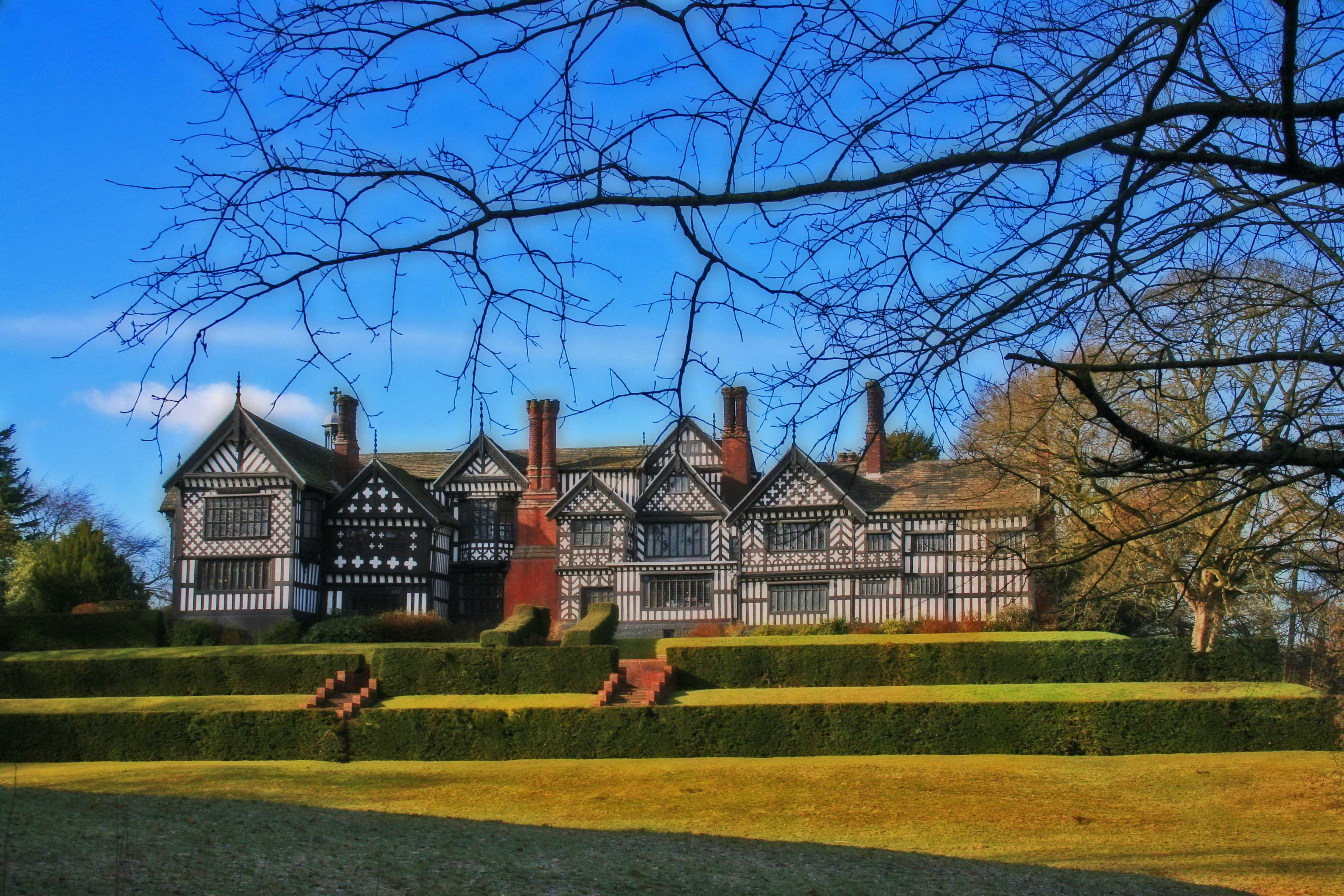 Bramall Hall, Bramhall, Greater Manchester, England.